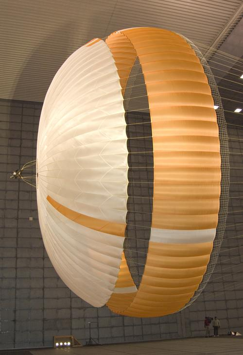 Mars Science Laboratory (MSL) test parachute at the NASA Ames Research Center at Moffett Field, California which has the world's largest wind tunnel. The MSL parachute is the largest parachute ever made for an extraterrestrial mission with a diameter of nearly 16 meters (51 feet). The parachute uses 80 suspension lines and is made mostly of nylon except for a small disk of polyester. Both the MSL parachute and the MSL test parachute were made by Pioneer Aerospace.